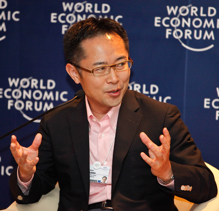 SEOUL/SOUTH KOREA, 18JUN09 - Motohisa Furukawa(古川元久), Member of the House of Representatives, Japan; Young Global Leader - captured during the World Economic Forum on East Asia in Seoul, South Korea, June 18, 2009. Copyright World Economic Forum /Photo by Oh Jaehyuk